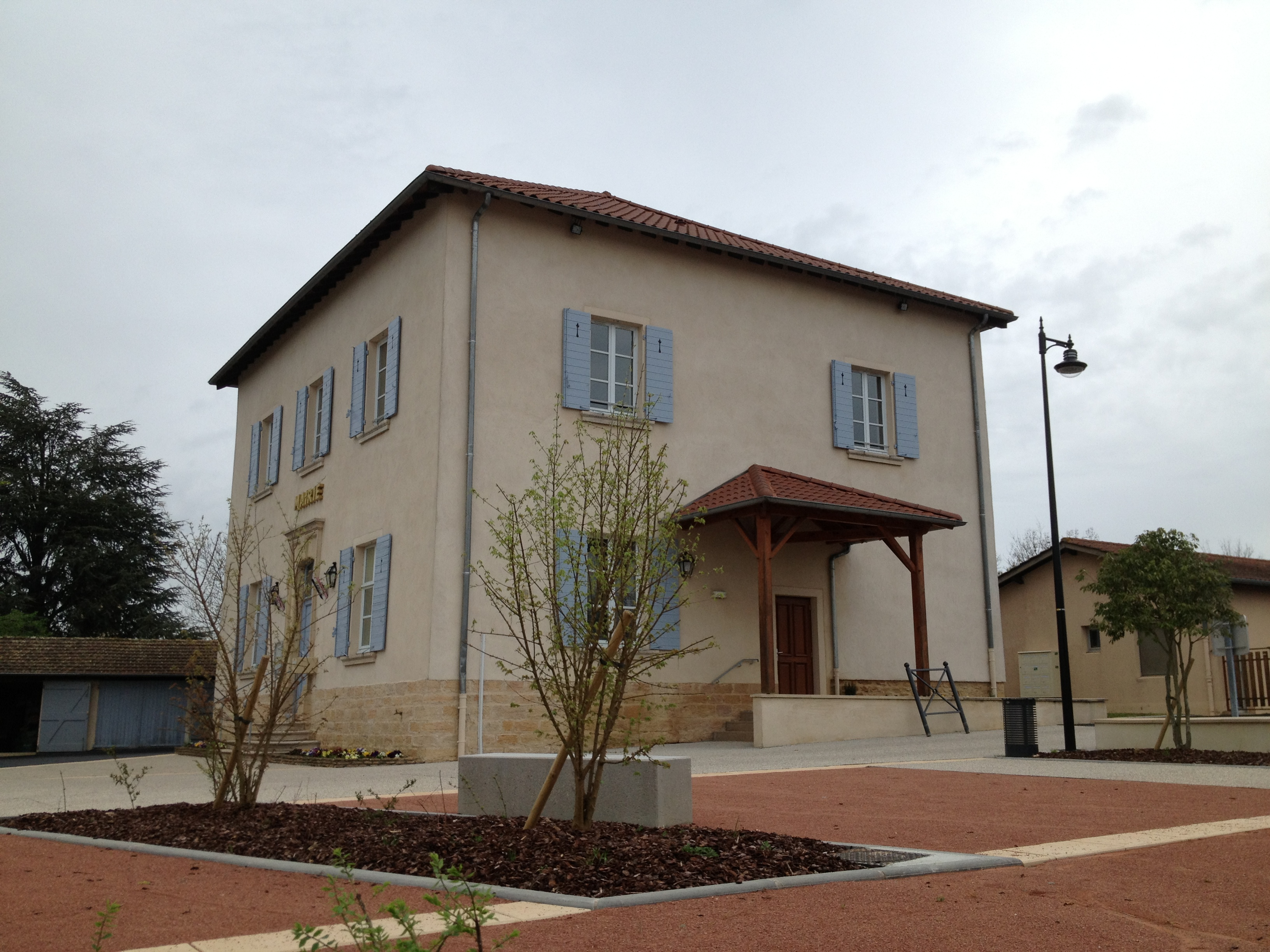 Town hall of Francheleins.